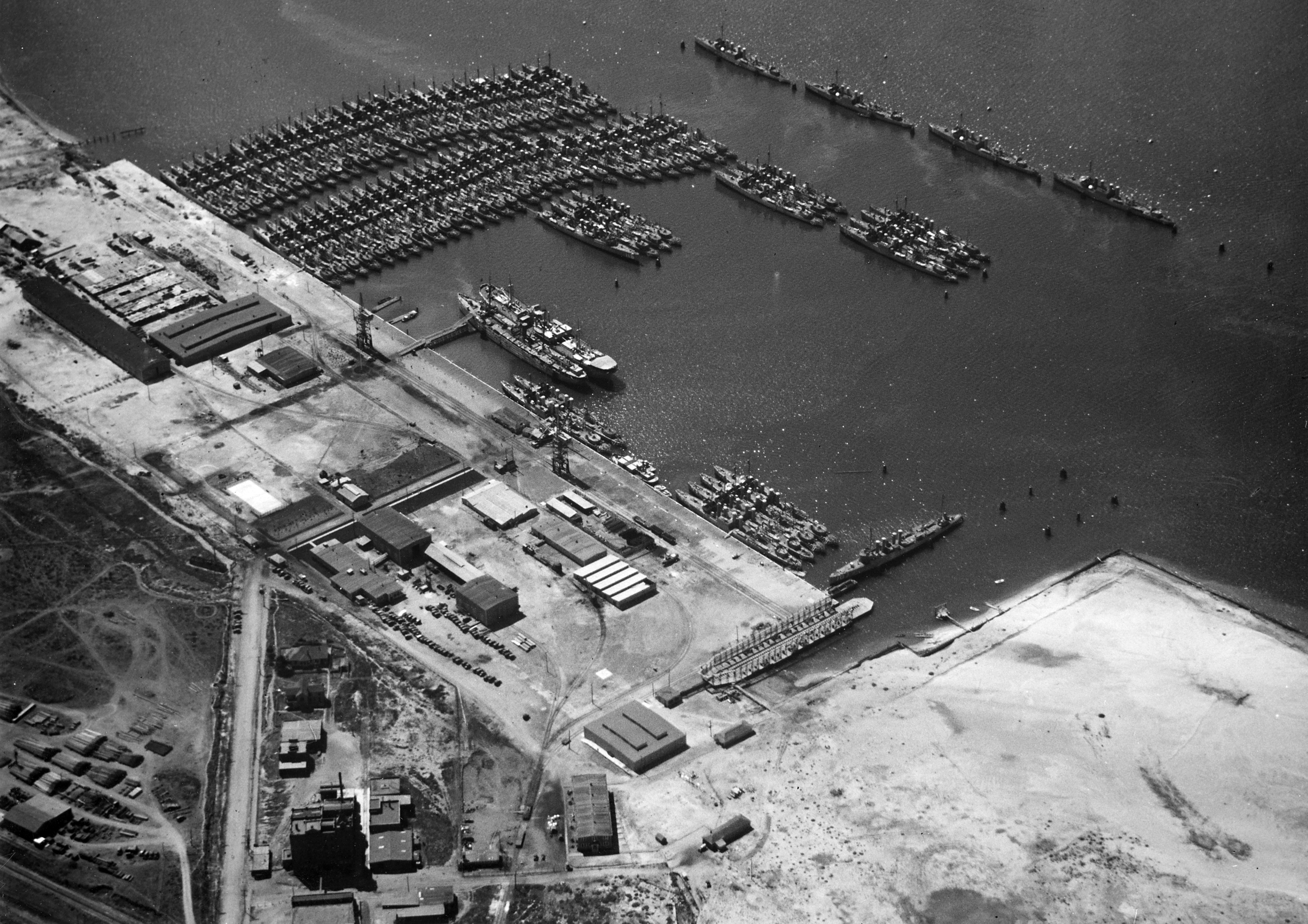 Circa 77 laid-up U.S. Navy Clemson and Wickes-class destroyers on the U.S. West Coast, in 1924. Identifiable are USS Hazelwood (DD-107), USS Dent (DD-116), and USS Alden (DD-211), and the destroyer tenders USS Buffalo (AD-8), inboard, and USS Prairie (AD-5). As the photo was archived by the 11th Naval District, the base is most probably the (then called) 32nd Street Naval Base at San Diego, California (USA), where 77 destroyers were decommissioned in 1924.